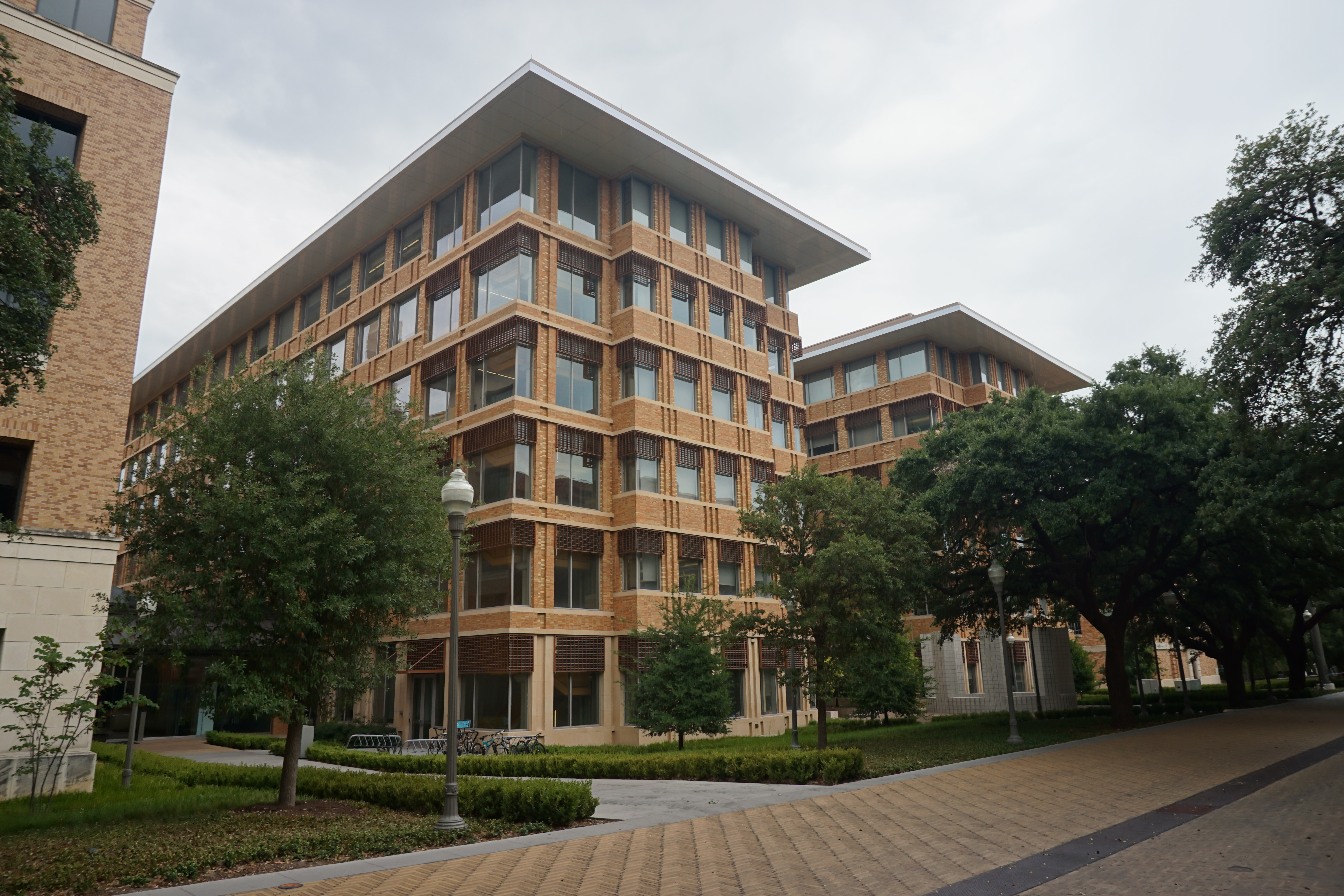 The Gates-Dell Complex on the campus of the University of Texas at Austin in Austin, Texas (United States).